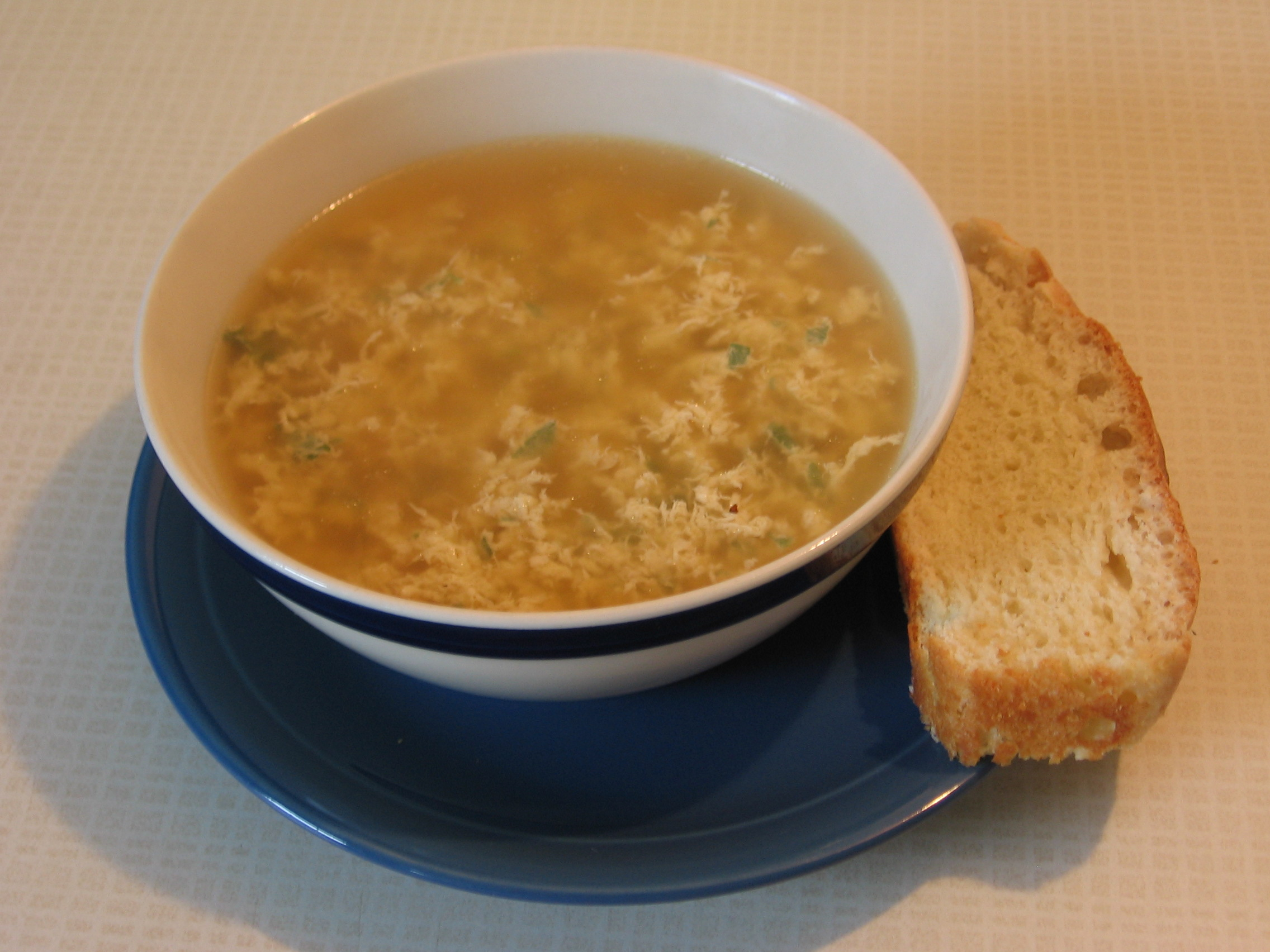 A bowl of Straciatella.